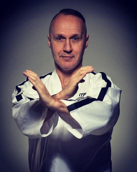 personal photo